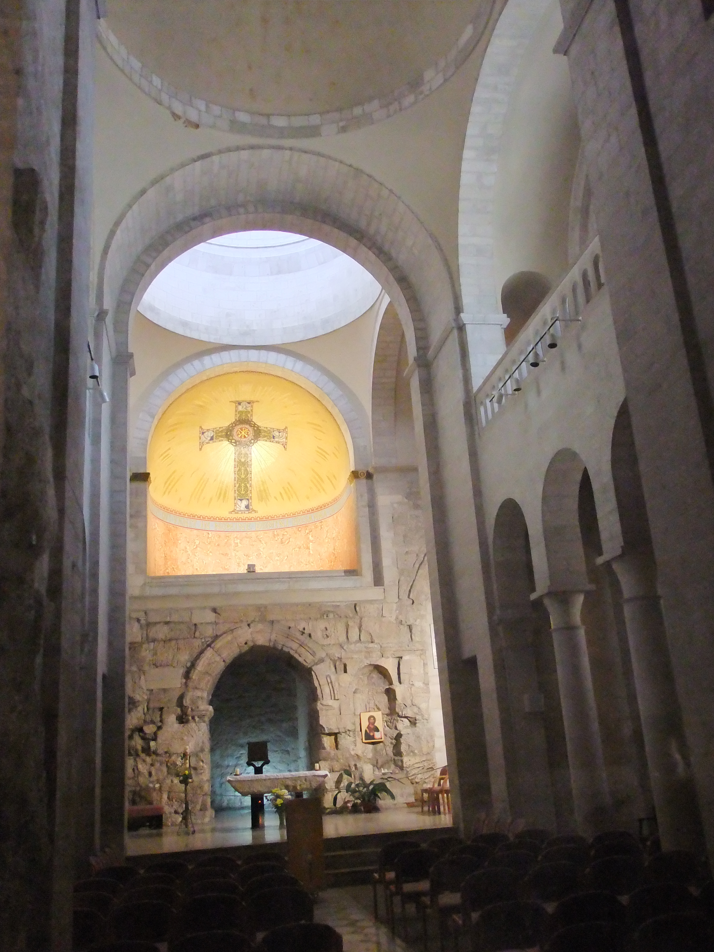 Side opening of the Ecce Homo arch, in the basilica of the Sisters of Zion convent. The old city of Jerusalem.